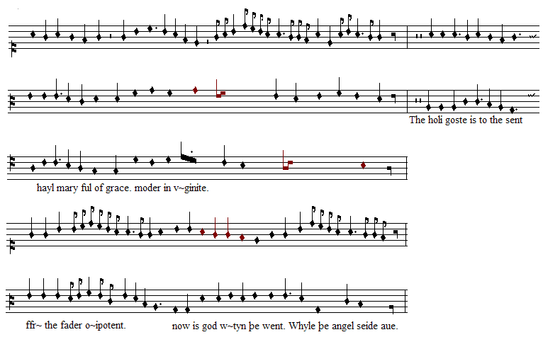 Example of Mensural notation: "Hail Mary full of grace", English Christmas carol, 15th century. Music typeset myself, after reproduction of original.